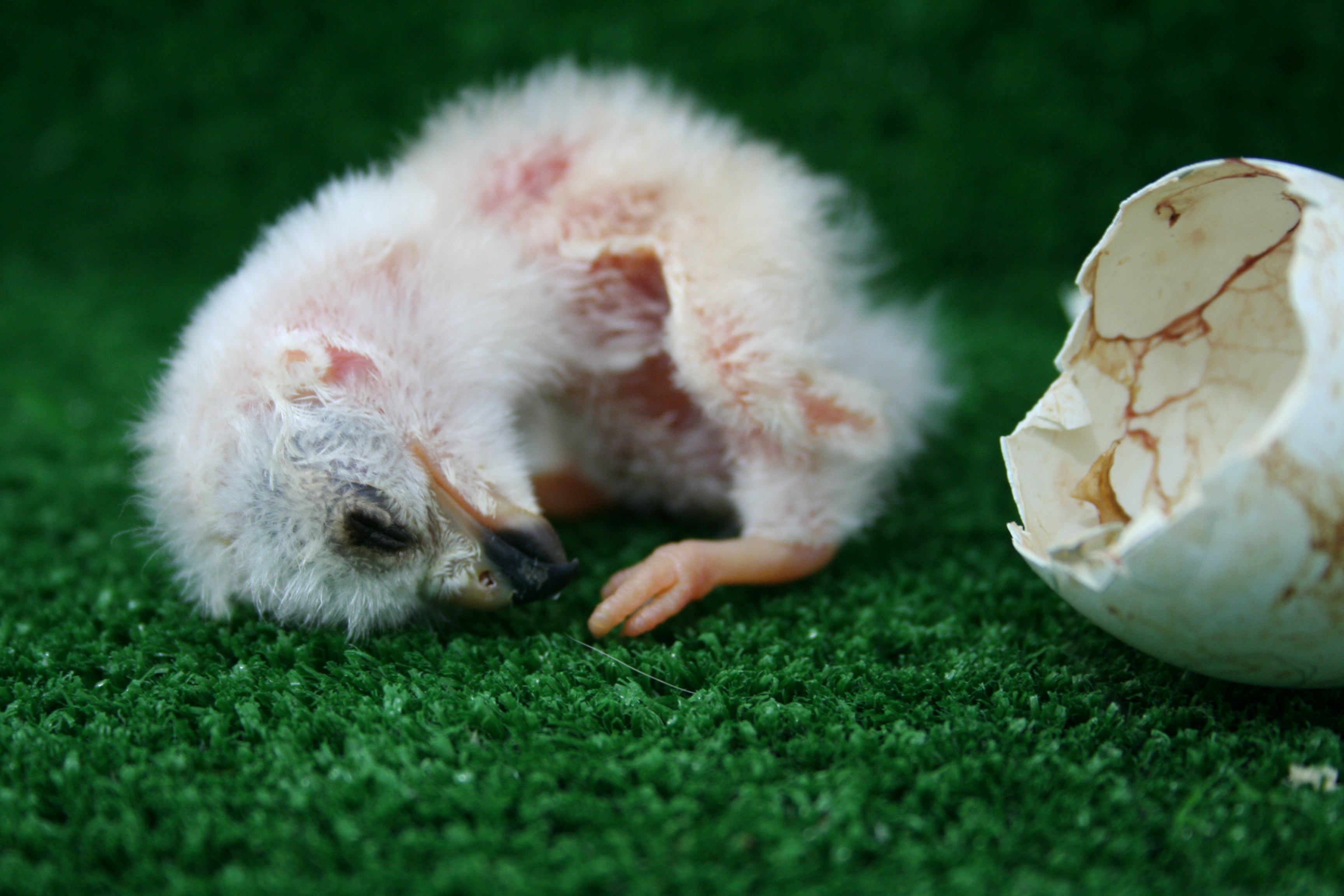 Chick of a Montagu's Harrier newly-hatched from the egg